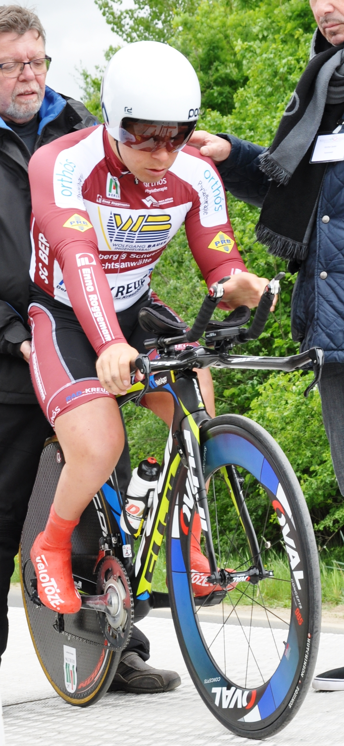 Pierre Senska, German para-cyclist